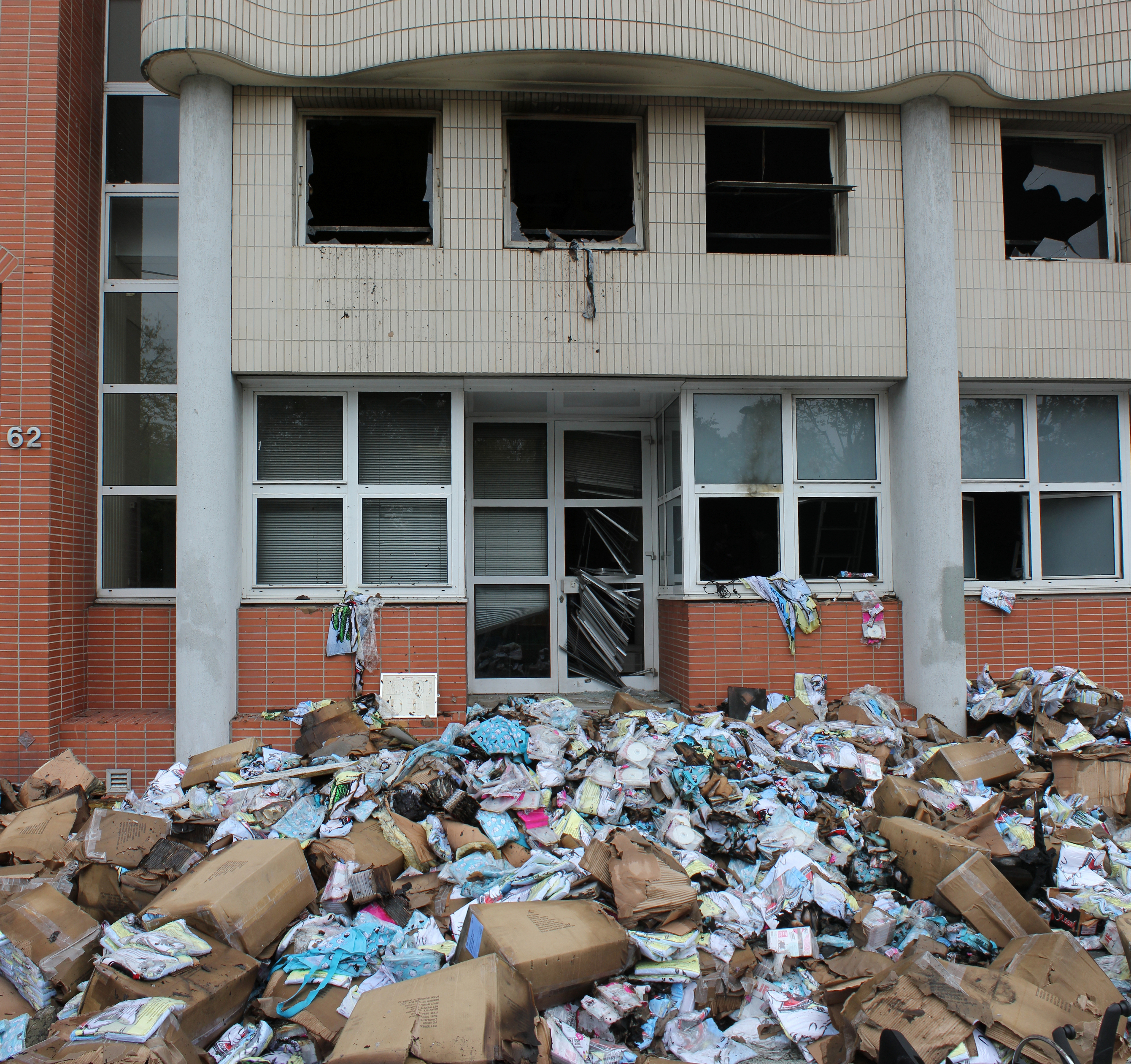 After the fire of the offices of the satirical French magazine Charlie Hebdo, November 2 2011, 62 boulevard Davout, Paris, France.